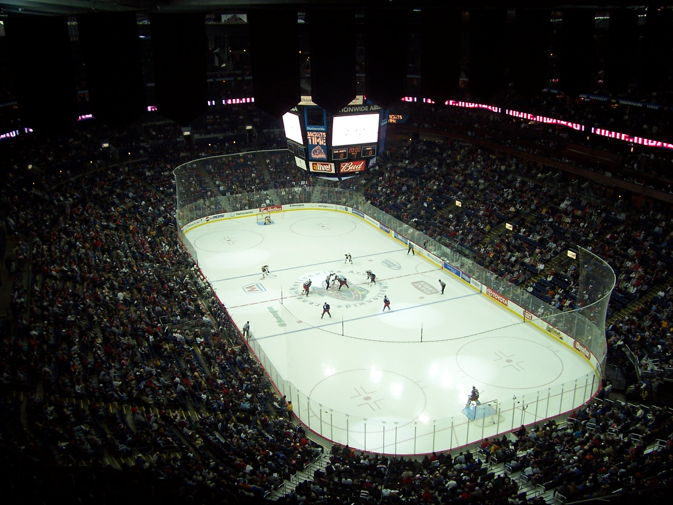 Nationwide Arena in Columbus, Ohio, United States during a sold-out National Hockey League ice hockey game between the Columbus Blue Jackets (home team) and the Boston Bruins (visiting team), in 2006.